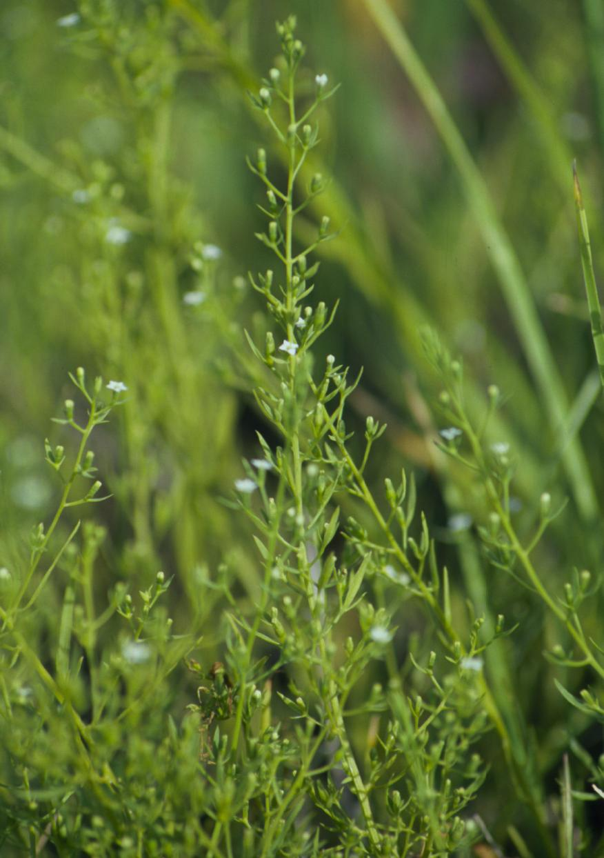 Thesium is locally common along the Burke Park Trail and to the east along the trail from Burke Park to Highland Bldv.